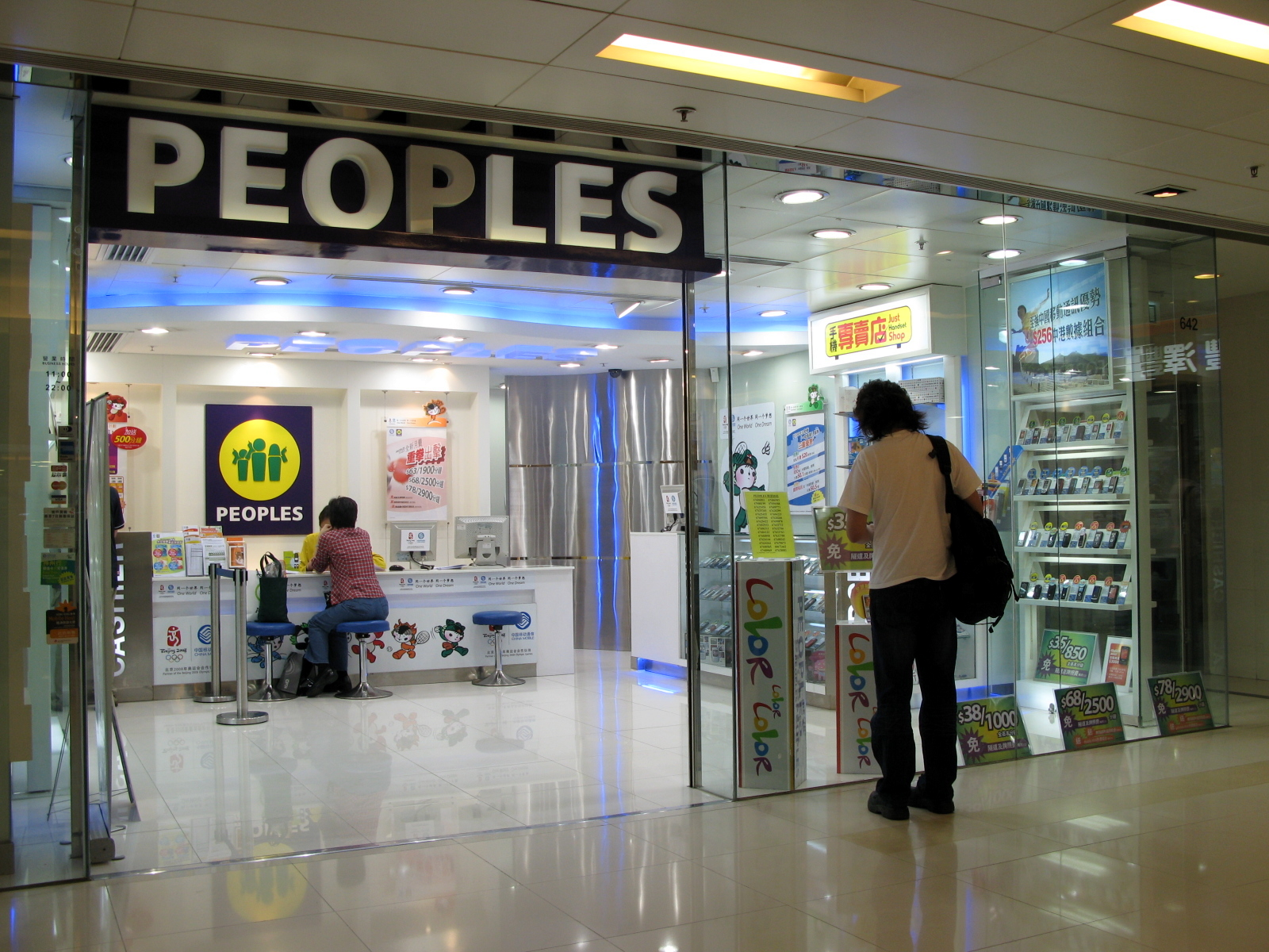 C Peoples Com Store in New Town Plaza